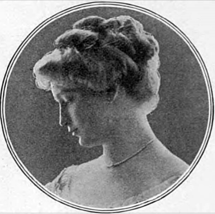 Avery Buxton of Dunston Hall Norwich 1910